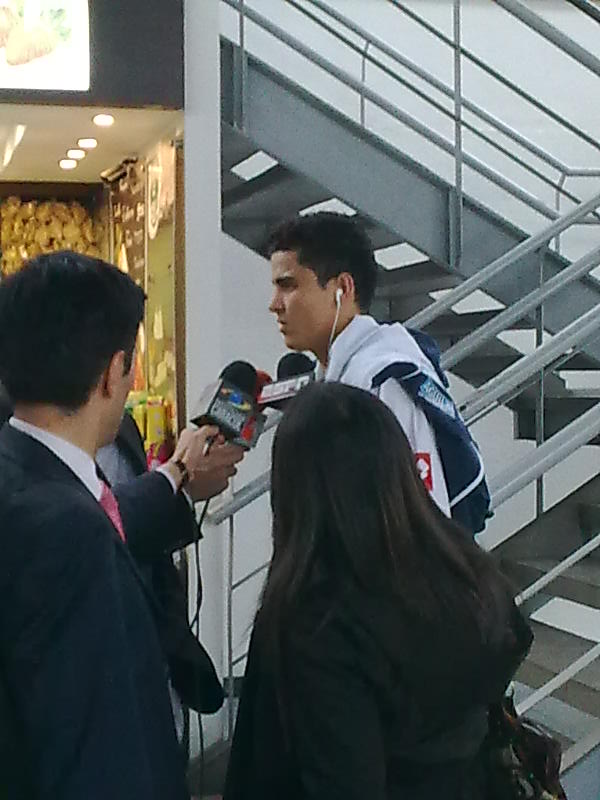 Colombian footballer Giovanni Moreno giving an interview at SKBO.